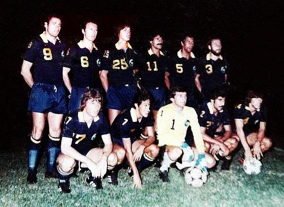 American soccer team, NY Cosmos, before playing C.A. Cipolletti in Cipolletti, Río Negro Province, Argentina. The friendly match ended 1-1. Some players are: Giorgio Chinaglia (9), Franz Beckenbauer (6), Carlos Alberto (5), Rick Davis (17), Julio C. Romero (7).